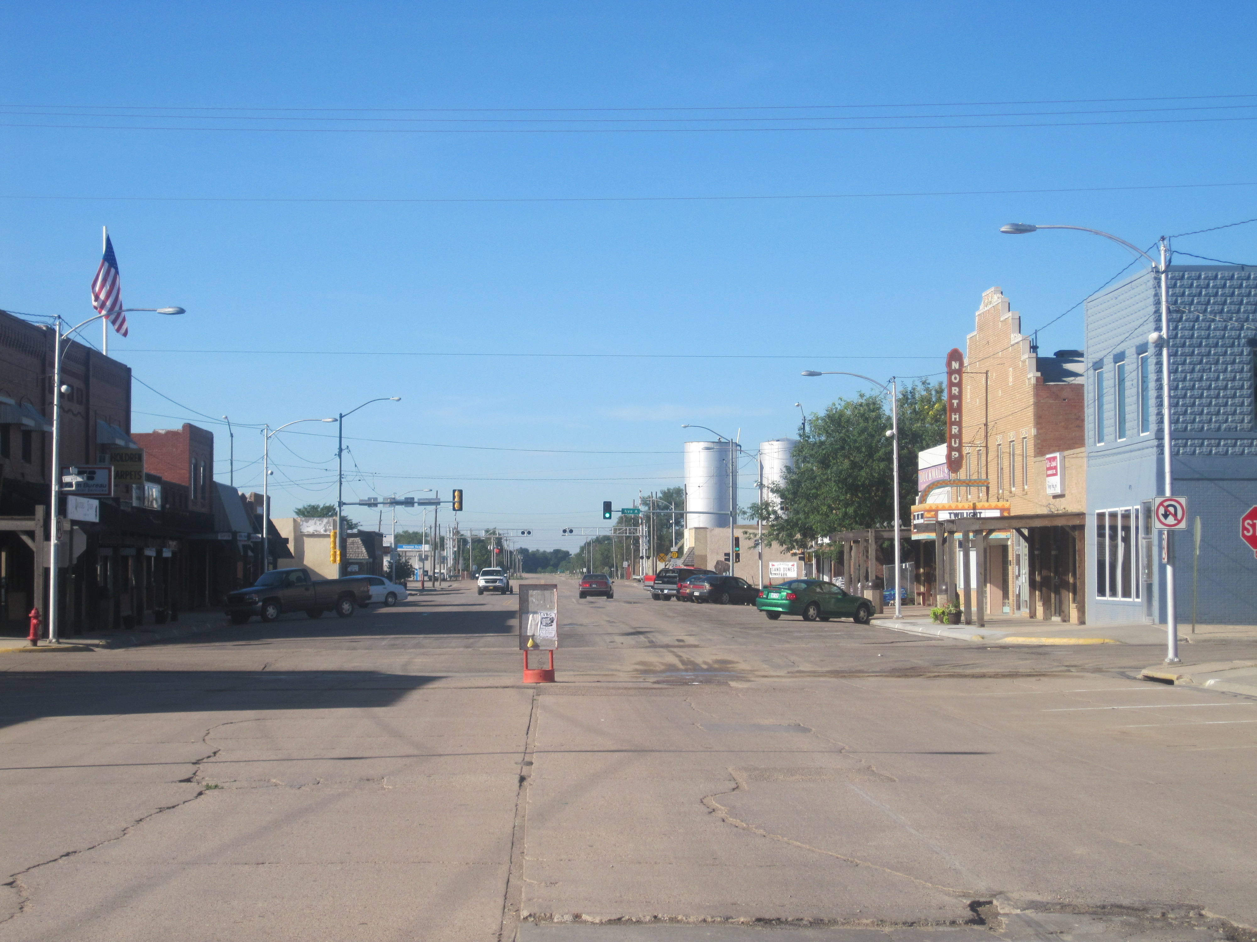 I took photo with Canon camera in Syracuse, KS.